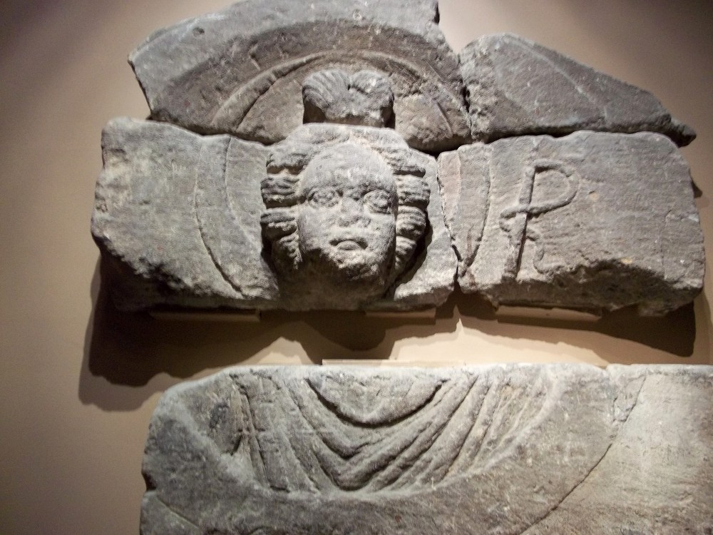 Three pieces of sculpture showing a Roman goddess, probably Luna, the moon goddess. She carries a whip in her left hand, perhaps used to control the horses of her chariot that took her across the night sky. Behind her is a crescent, representing the moon. These three pieces come from the Temple courtyard. Found whilst building the present Pump Room in 1790.